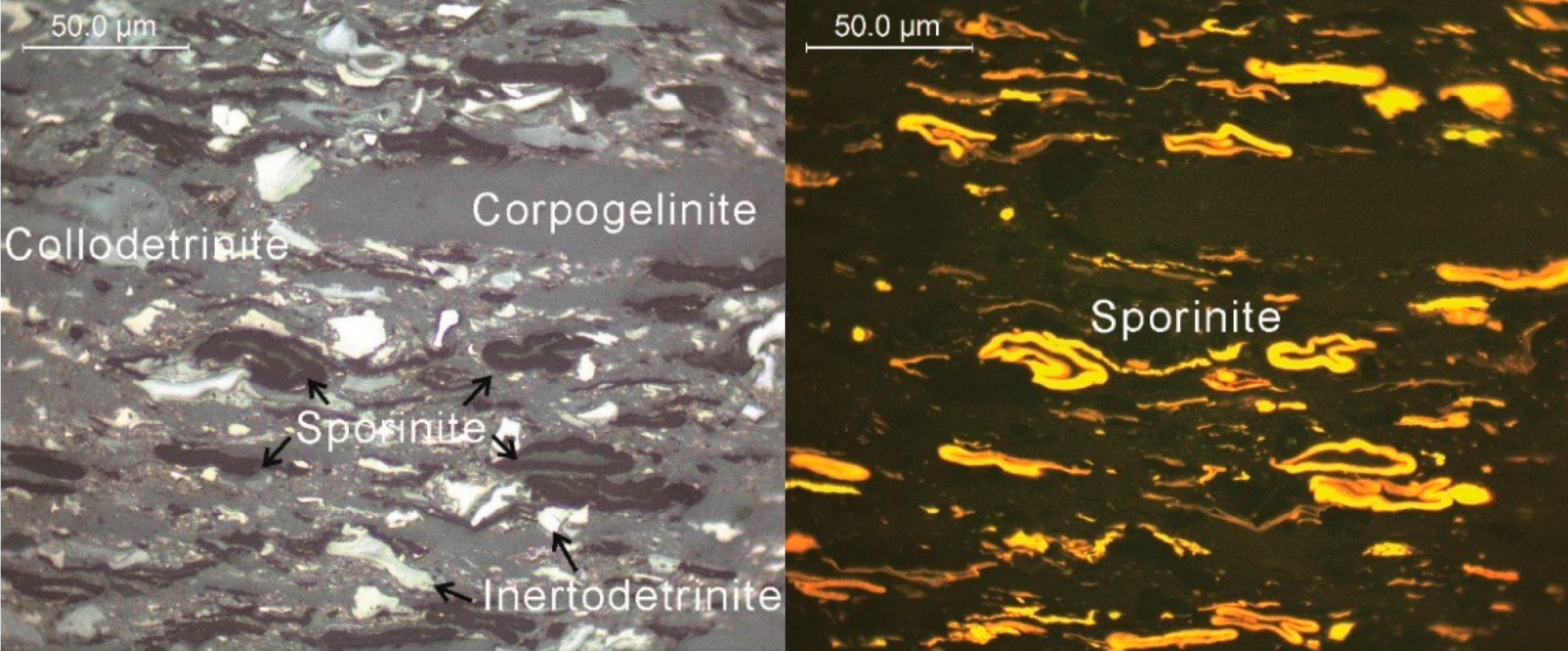 Macerals in the Upper No. 3 coals. Left: Sporinite, corpogelinite, inertodetrinite, and colledetrinite (sample no. LBS3U-4), under oil reflectance white light; right: Sporinite under fluorescent light (same sample).